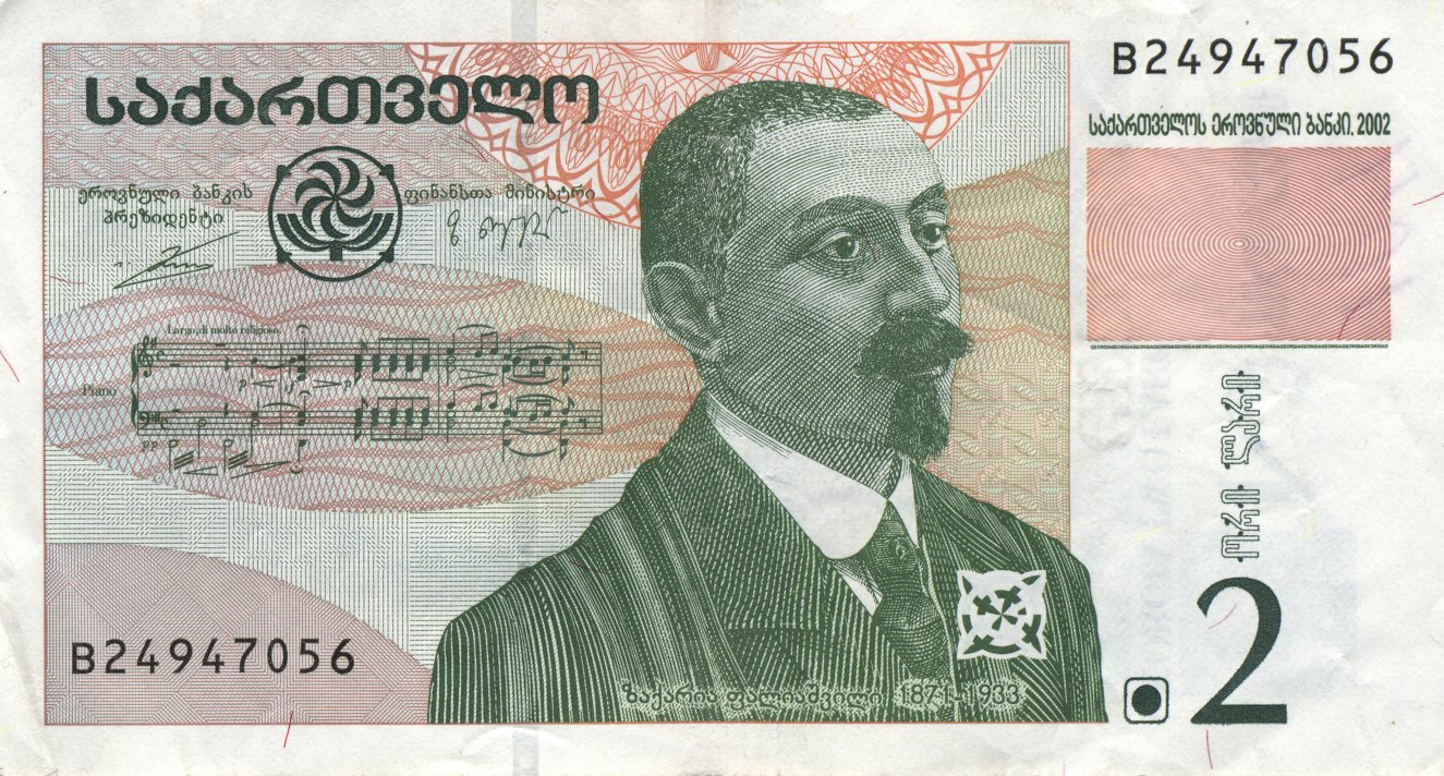 2 Georgian lari